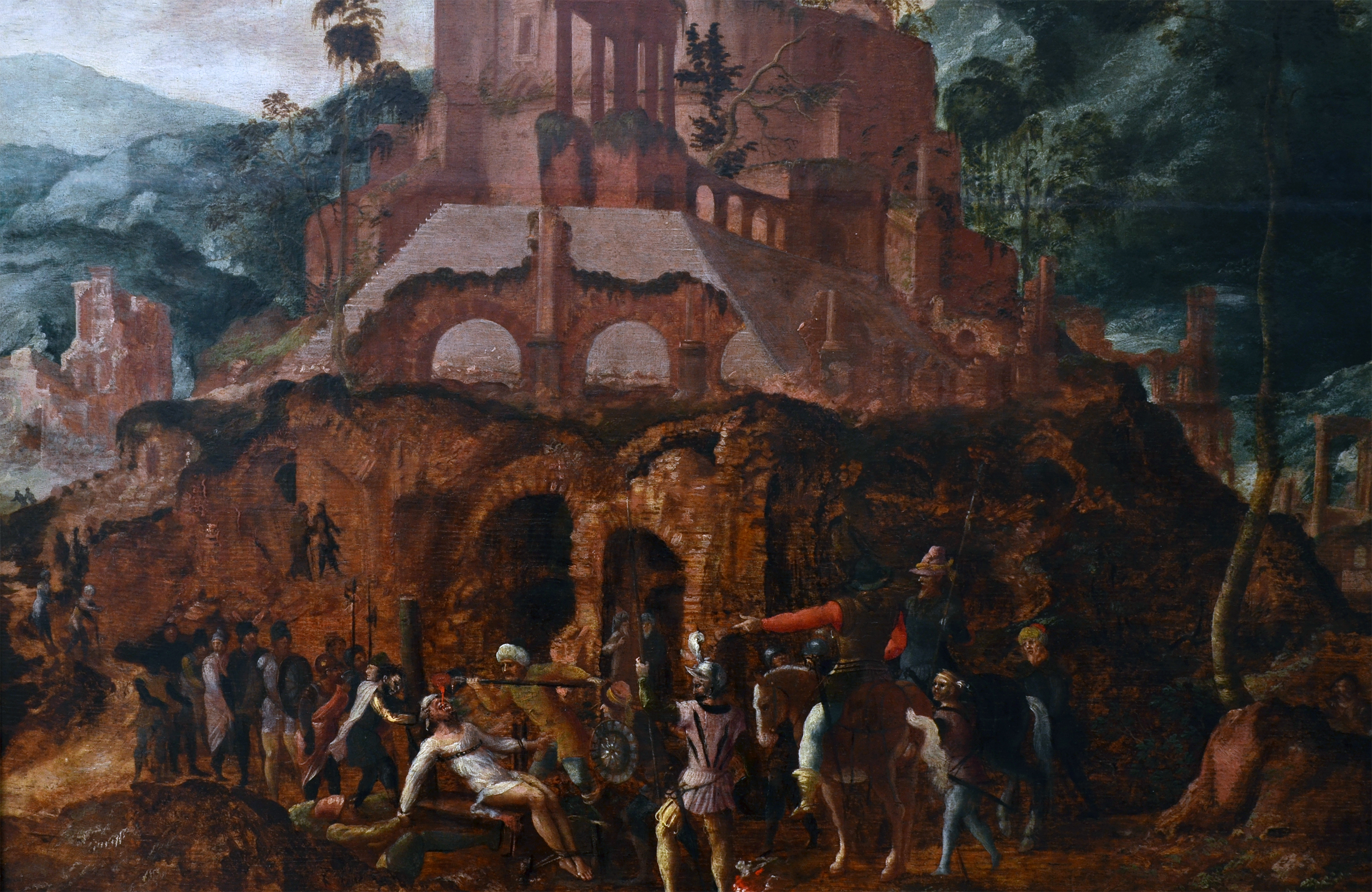 The death of Marcus Licinius Crassus, by Lancelot Blondeel. Oil on panel, between 1548 and 1558. Groeningemuseum.